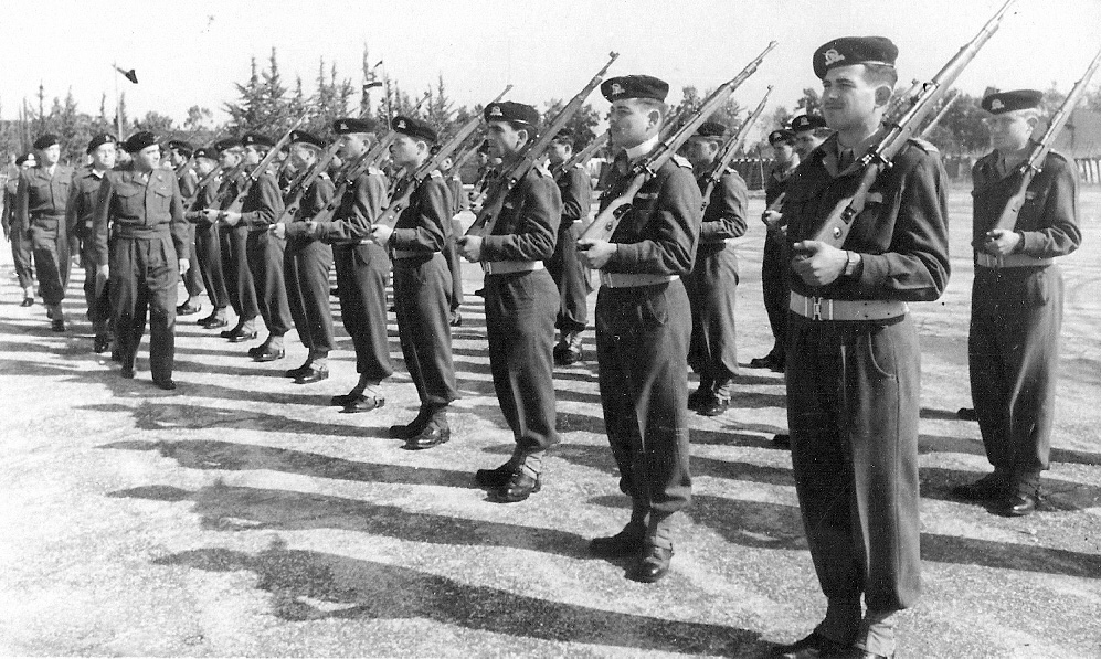 Graduation ceremony for artillery officers in the Israeli Army (IDF, Israel Defense Forces). The ceremony is taking place in the main basic training base ("Tsrifhim").